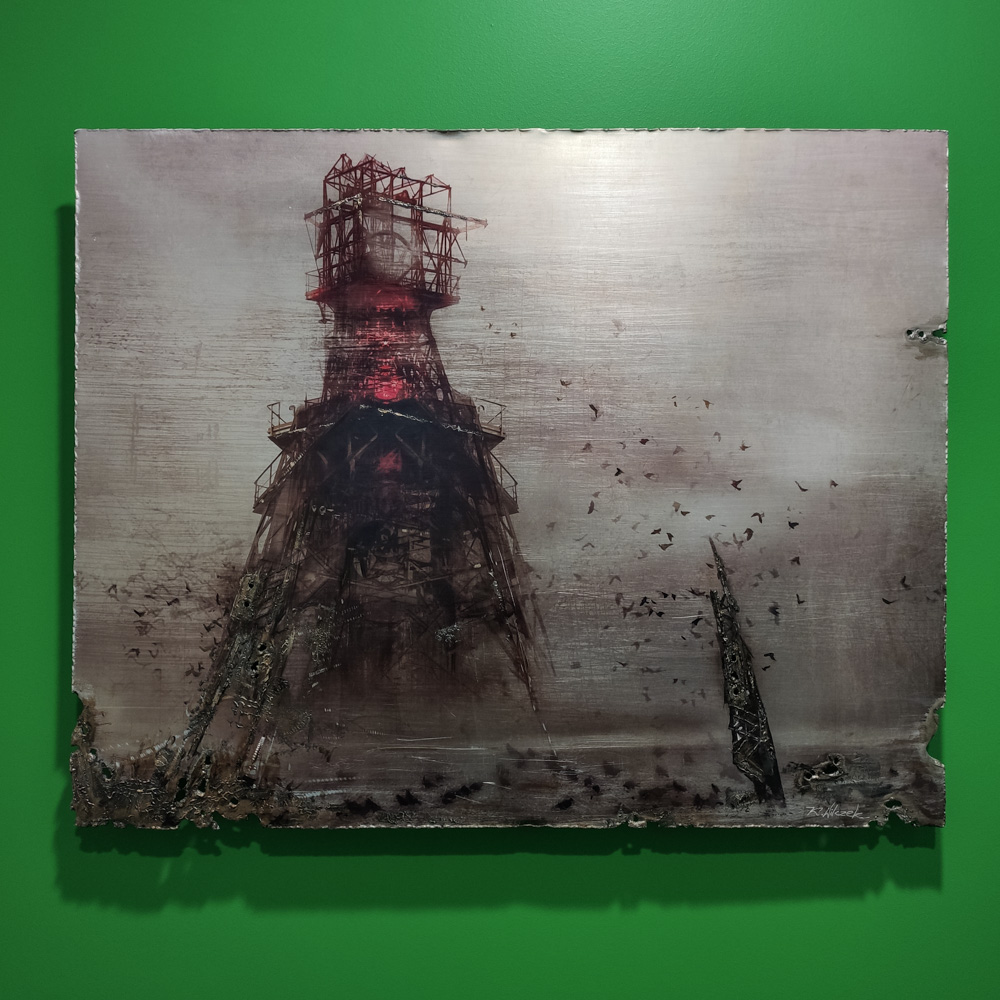 Kornel Wilczek Carbo Guardian Picture Аҧсшәа: Kornel Wilczek Carbo Strażnik Obraz